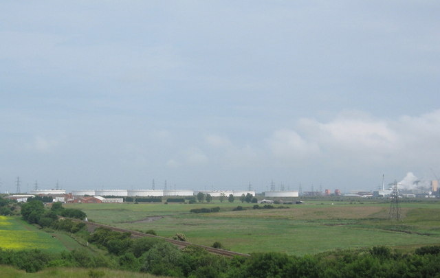 Greatham Tank Farm Just north of Teesmouth an oil storage depot viewed from Cowpen Bewley Woodland Park